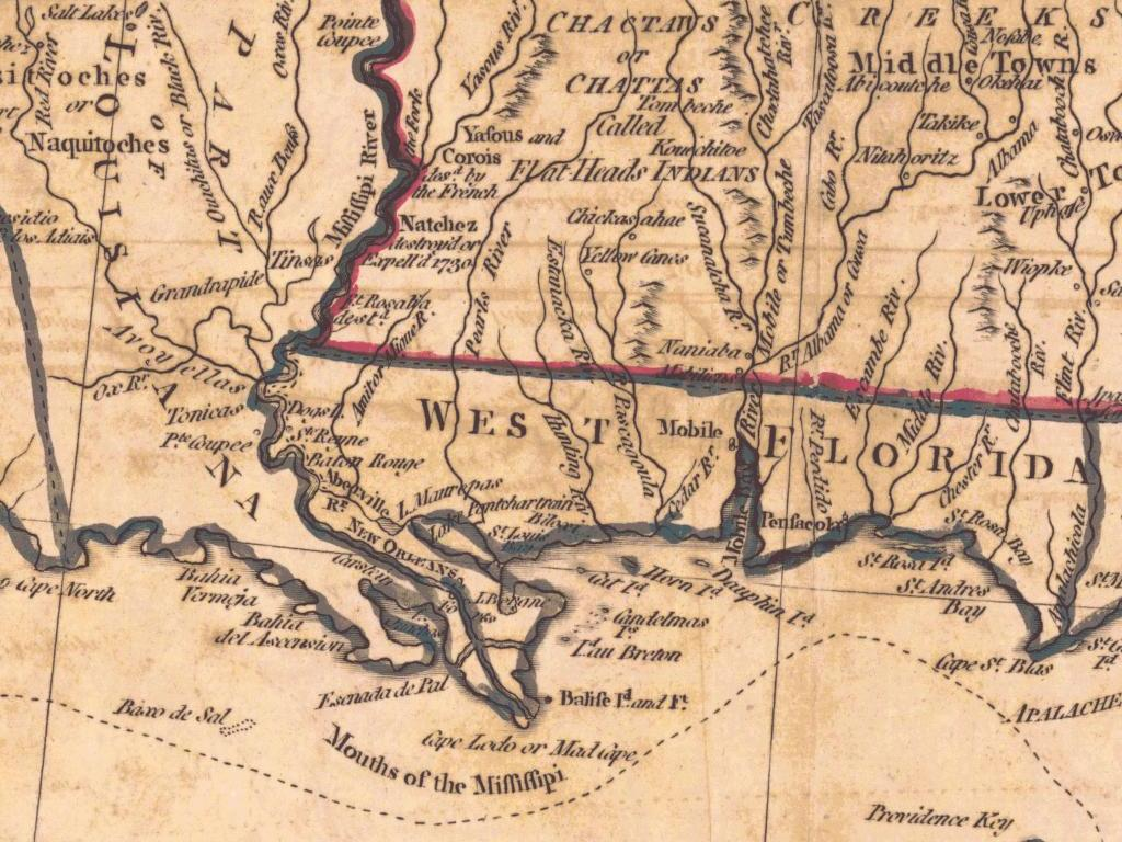 A portion of: A Map of the East and West Florida, Georgia, Louisiana.